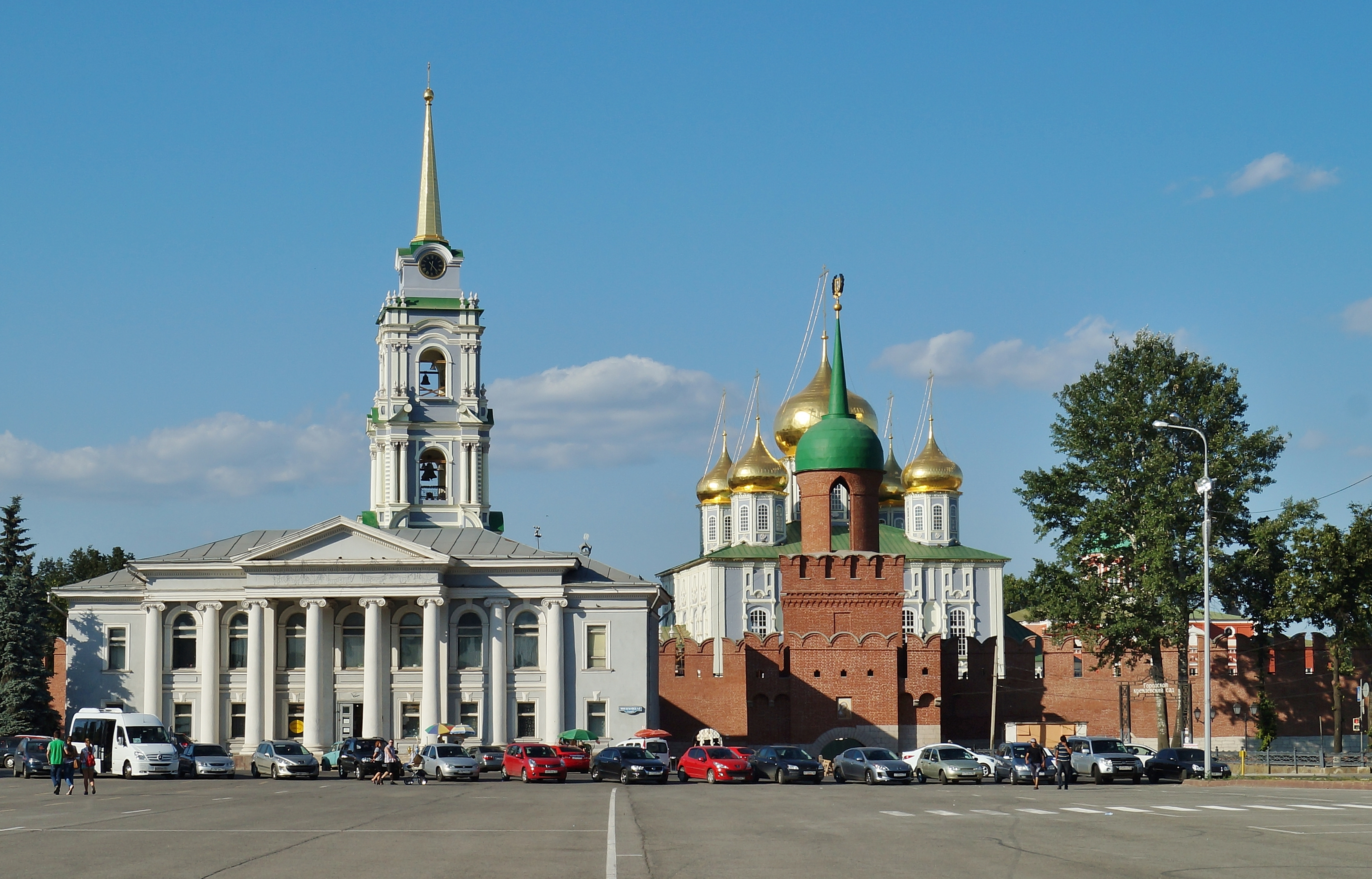 Tula Kremlin